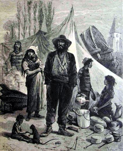 French Bohemians (Roma) in the 19th century.